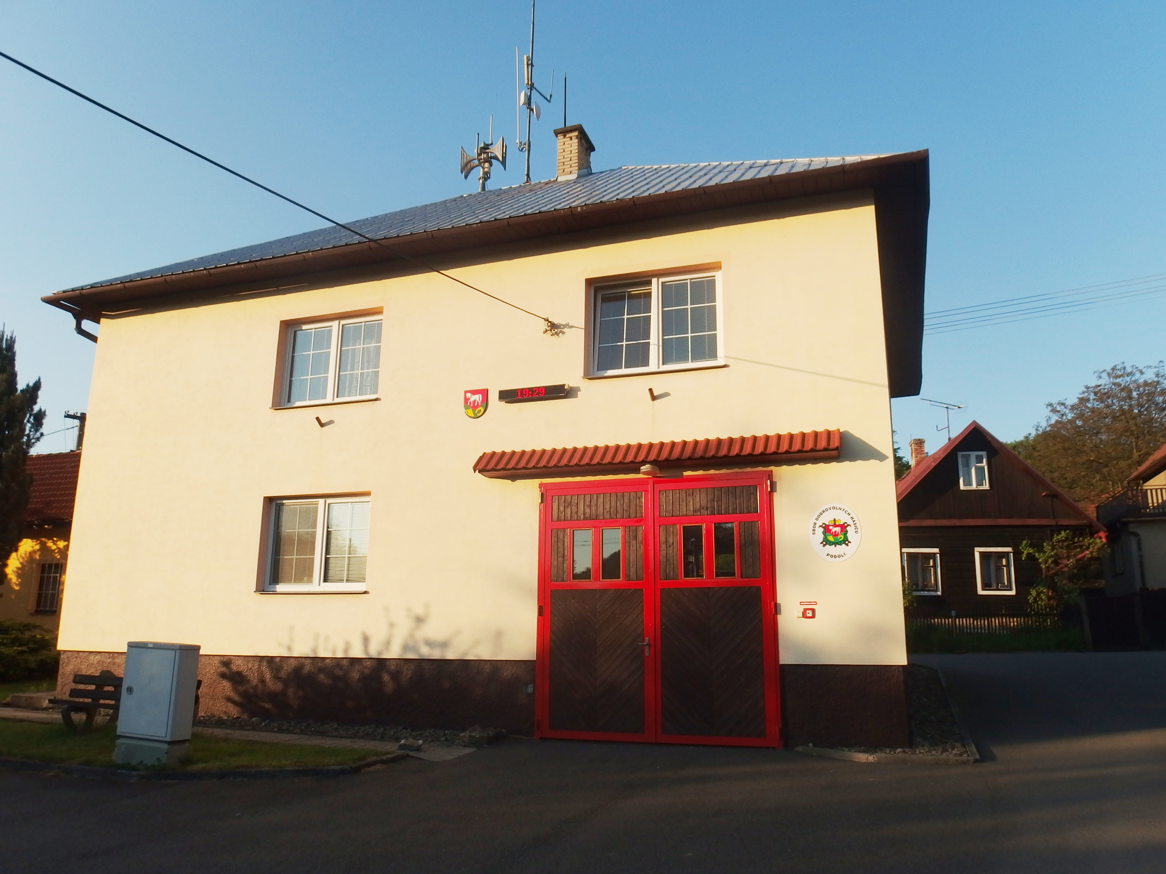 Podolí, Vsetín District, Czech Republic.